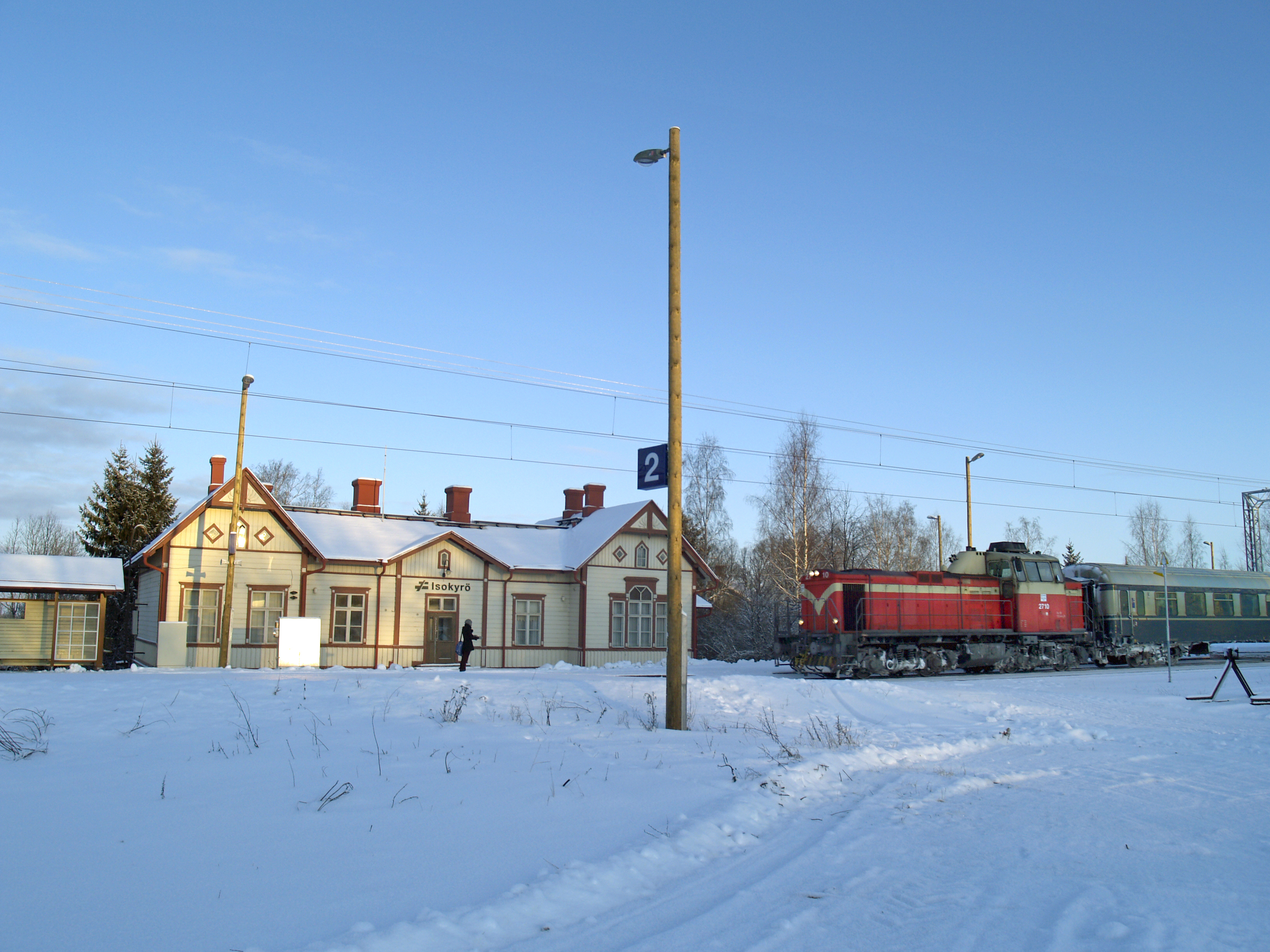 Isokyrö railway station along the Vaasa railway running between Seinäjoki and Vaasa, Finland. January 2012.